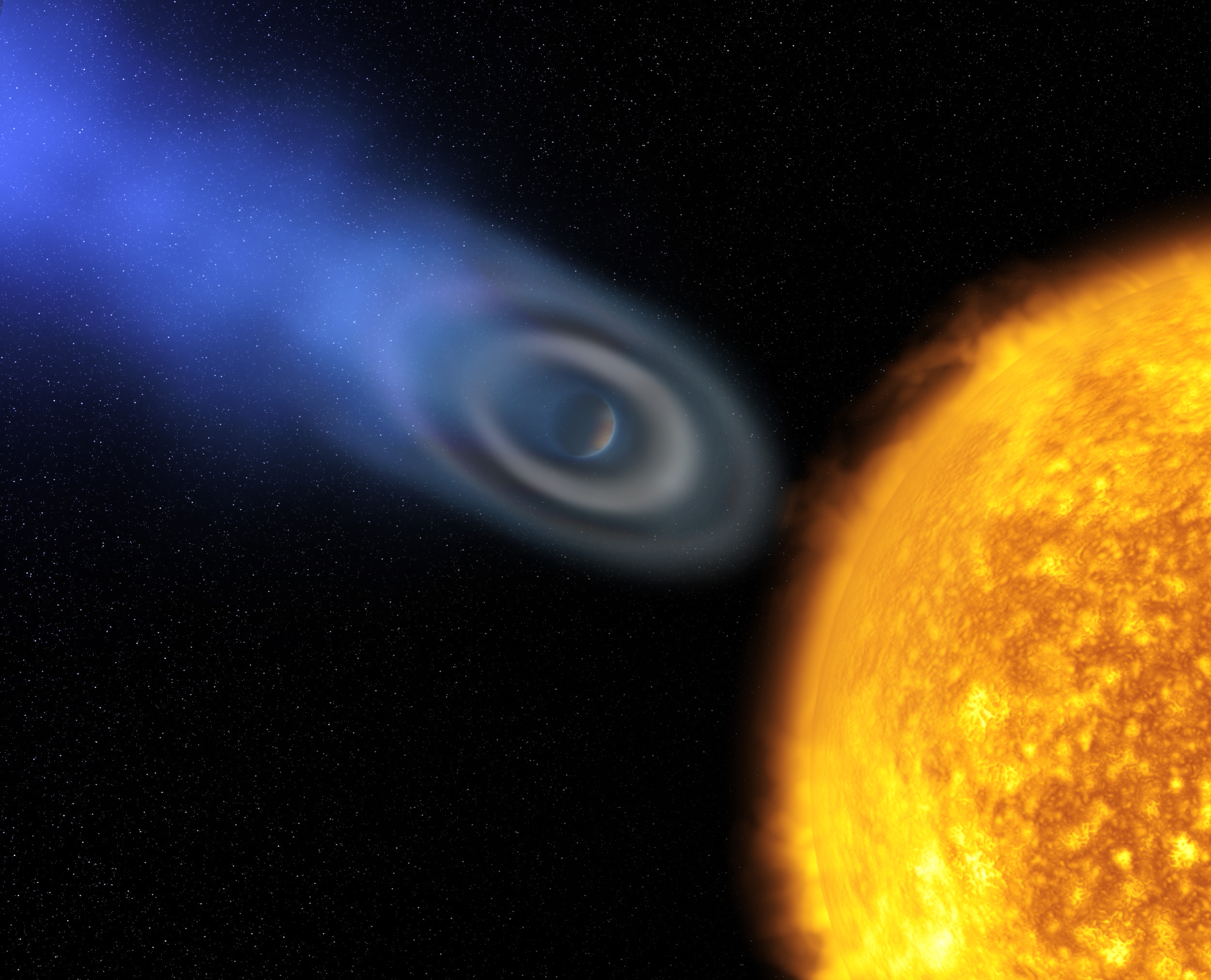 This artist's impression shows an extended ellipsoidal envelope - the shape of a rugby-ball - of oxygen and carbon discovered around the well-known extrasolar planet HD 209458b. An international team of astronomers led by Alfred Vidal-Madjar (Institut d'Astrophysique de Paris, CNRS, France) observed the first signs of oxygen and carbon in the atmosphere of a planet beyond our Solar System for the first time using the NASA/ESA Hubble Space Telescope. The atoms of carbon and oxygen are swept up from the lower atmosphere with the flow of escaping atmospheric atomic hydrogen - like dust in a supersonic whirlwind - in a process called atmospheric "blow off".